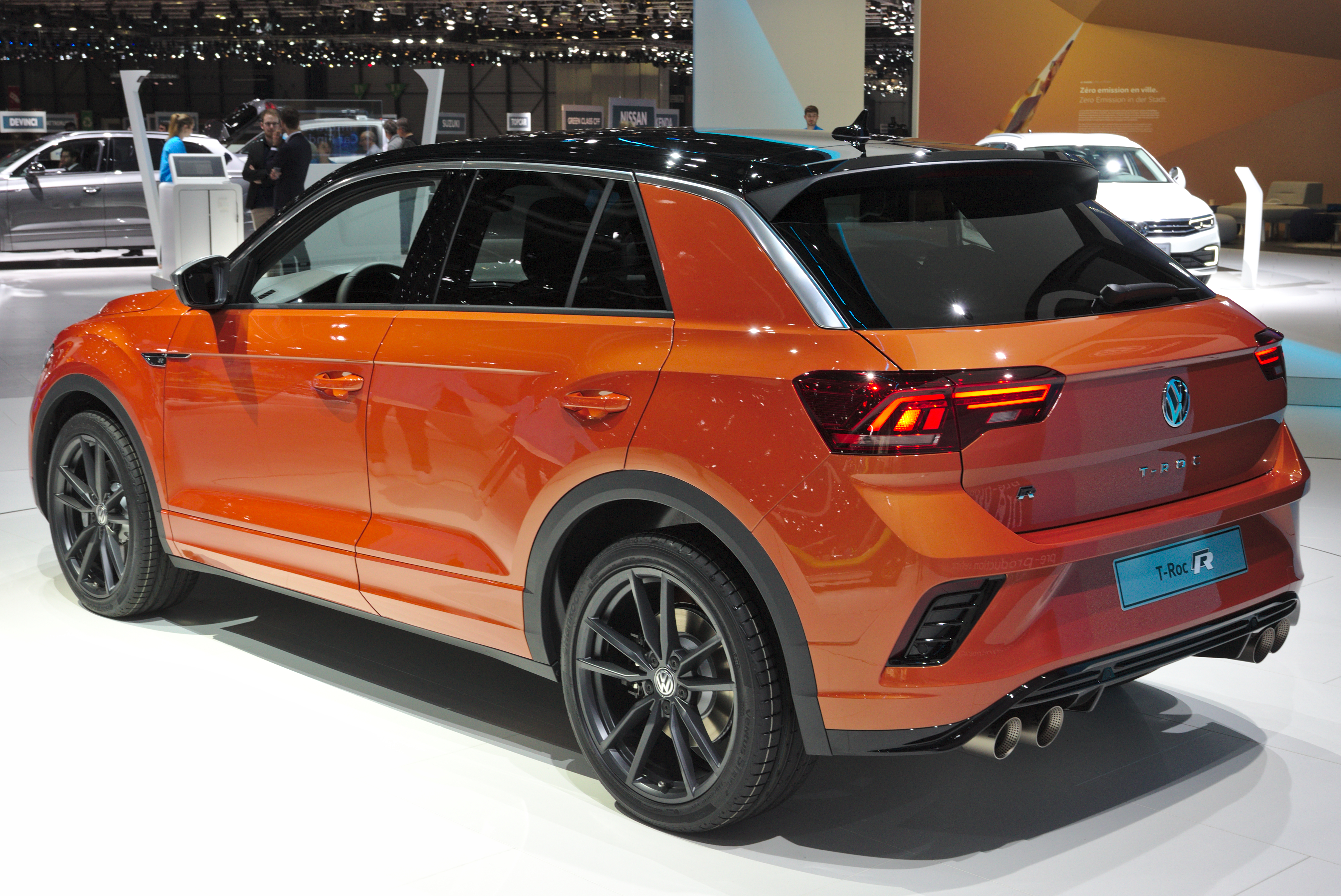 VW T-Roc R at Geneva Motor Show 2019